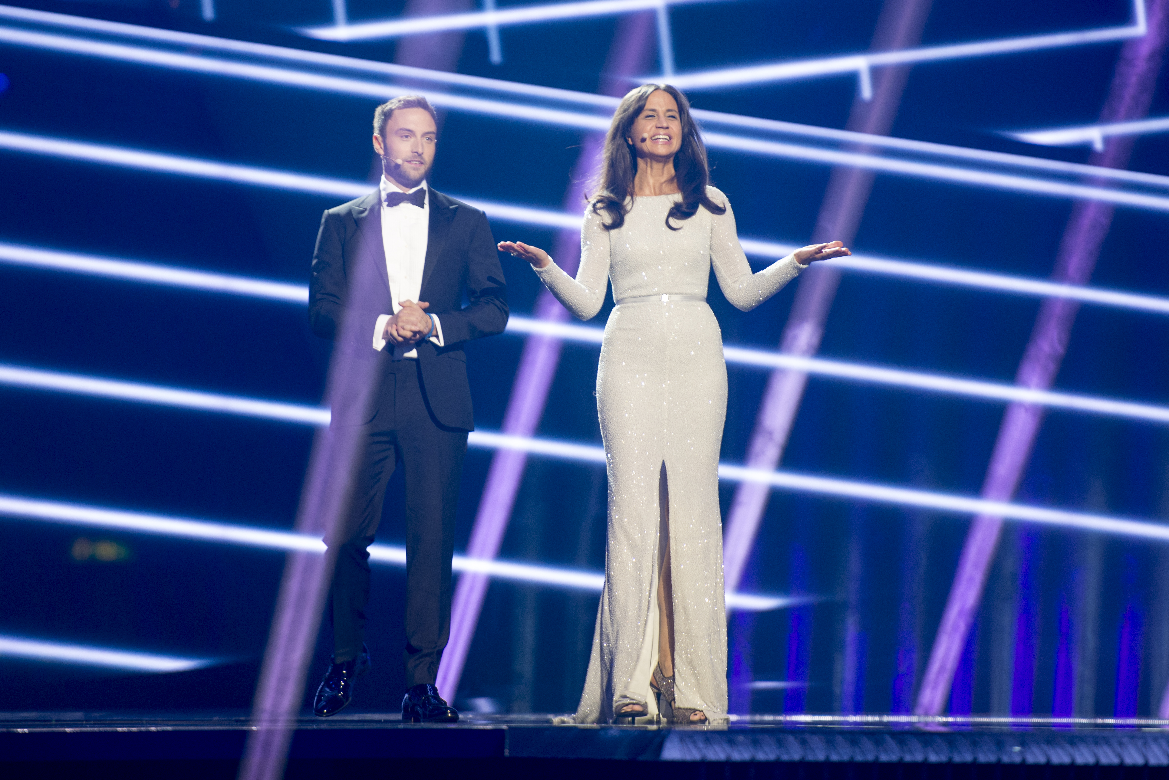 Måns Zelmerlöw & Petra Mede representing Måns Zelmerlöw & Petra Mede with the song Måns Zelmerlöw & Petra Mede during the first dress rehearsal of the first semi final of the Eurovision Song Contest 2016 in Stockholm. (Help translate this text)